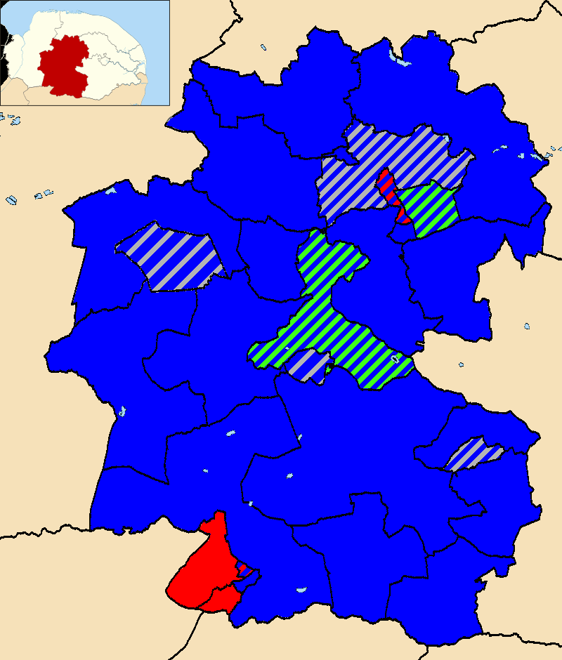 Map of Breckland, Norfolk, UK with electoral wards and seat results in 2019 shown. Adapted from by user:Nilfanion, and thereby based on Ordnance Survey open data.